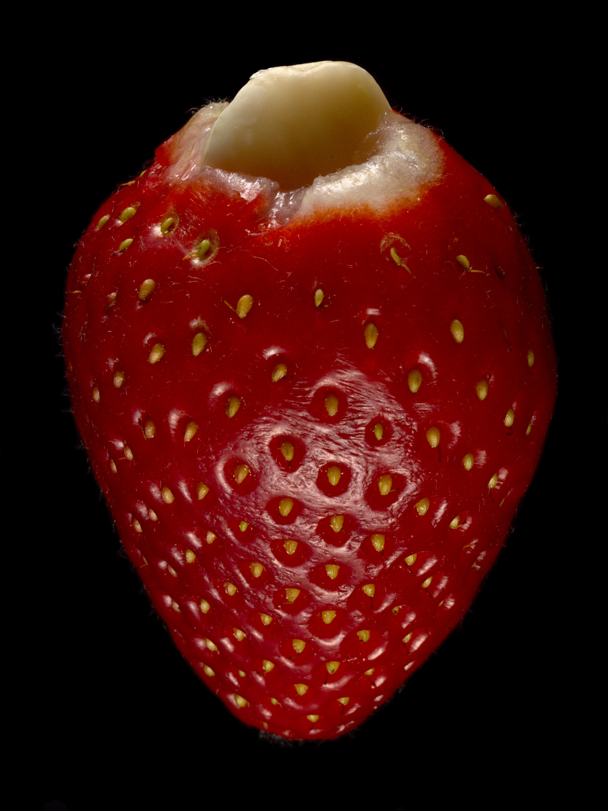 Strawberry stuffed with an almond (recipe by Clemens Wilmenrod)